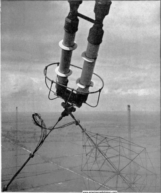 A electric insulator supporting the VLF wire antenna at the British government Rugby Radio Station, Rugby, UK in 1938. The station, completed in 1926, was a longwave VLF transatlantic wireless telegraphy station transmitting telegram traffic at a frequency of 16 kHz at output powers up to 500 kW. The antenna consisted of 16 820 ft steel masts supporting a 3 mile cage wire aerial consisting of 8 wires held apart in a circular "cage" shape by metal hoop spreaders. The end of one is visible in the picture. The insulator had to be long to withstand the 165,000 volt potential on the antenna. The wire loop around the end of the insulator is called a grading ring and reduces the potential gradient at the high voltage end of the antenna to discourage arcing.